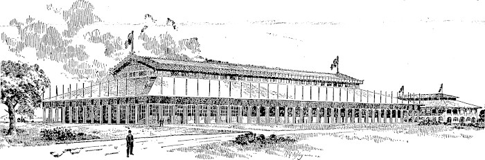 The Forestry Building - one of the World's Fair structures; Colombian Exposition